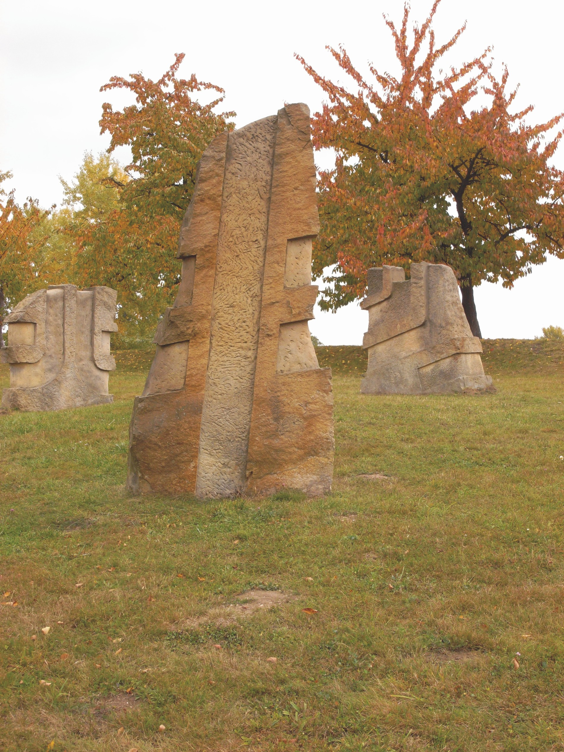 sculpture park of the St. Gothard hill in Hořice (Czech Republic)